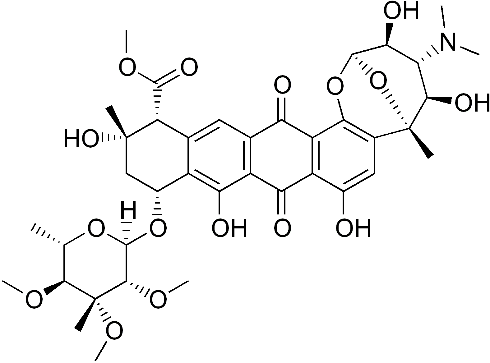 chemical structure of nogalamycin